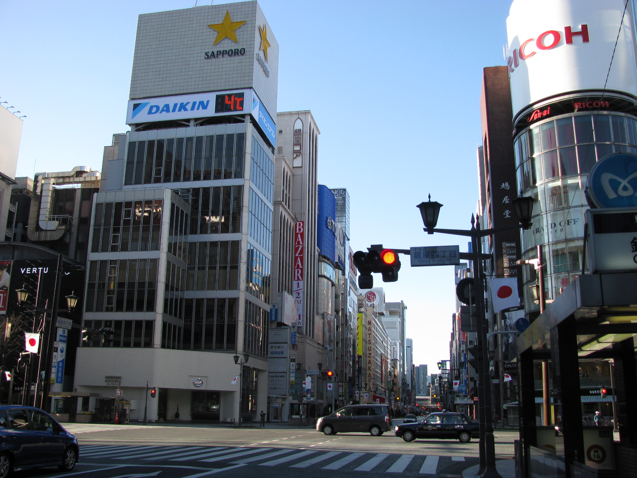 The National Route 15 in Japan. This place is Ginza, in Chuo, Tokyo, Japan.